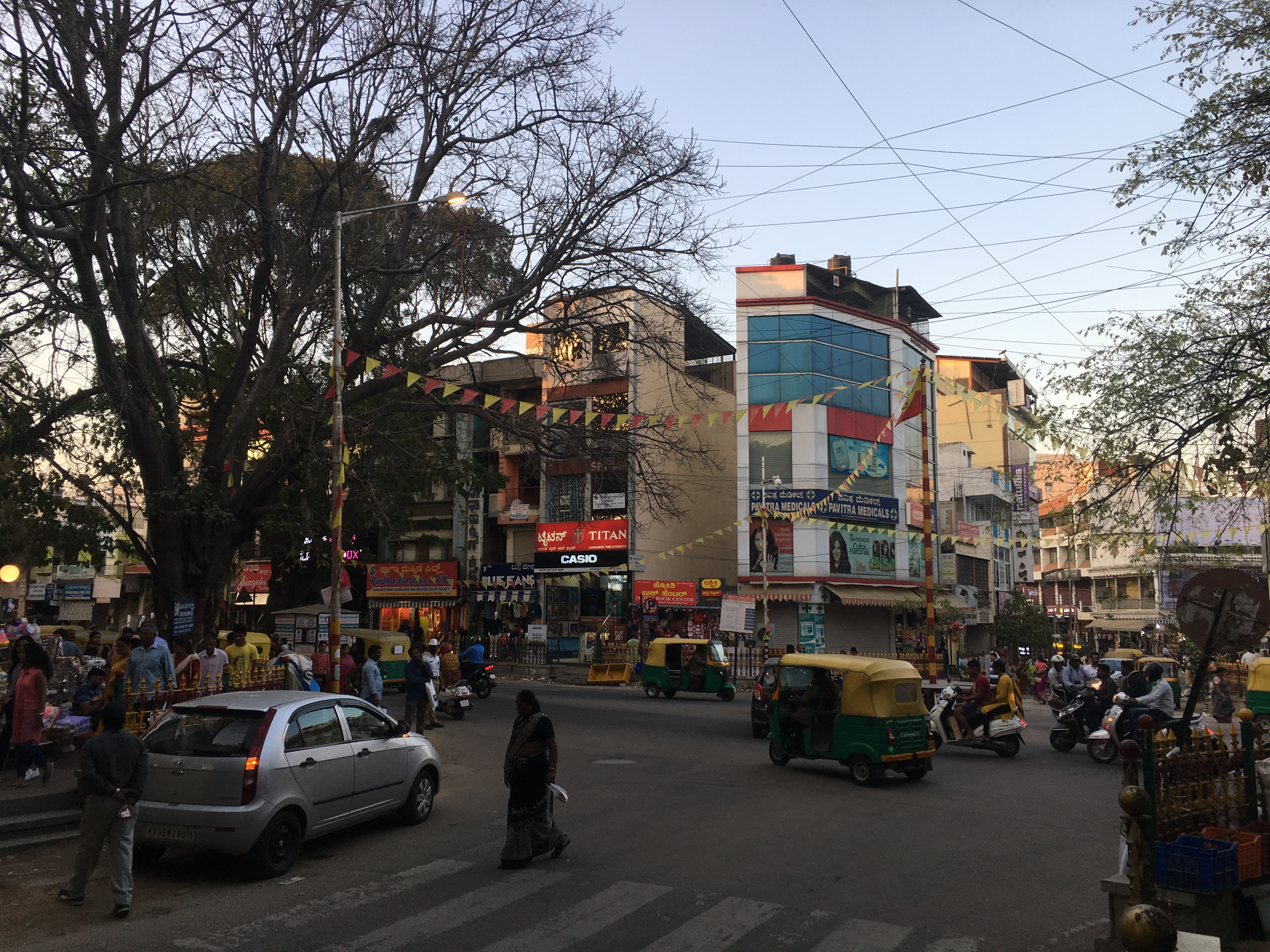 Gaandhi Bazaar Circle